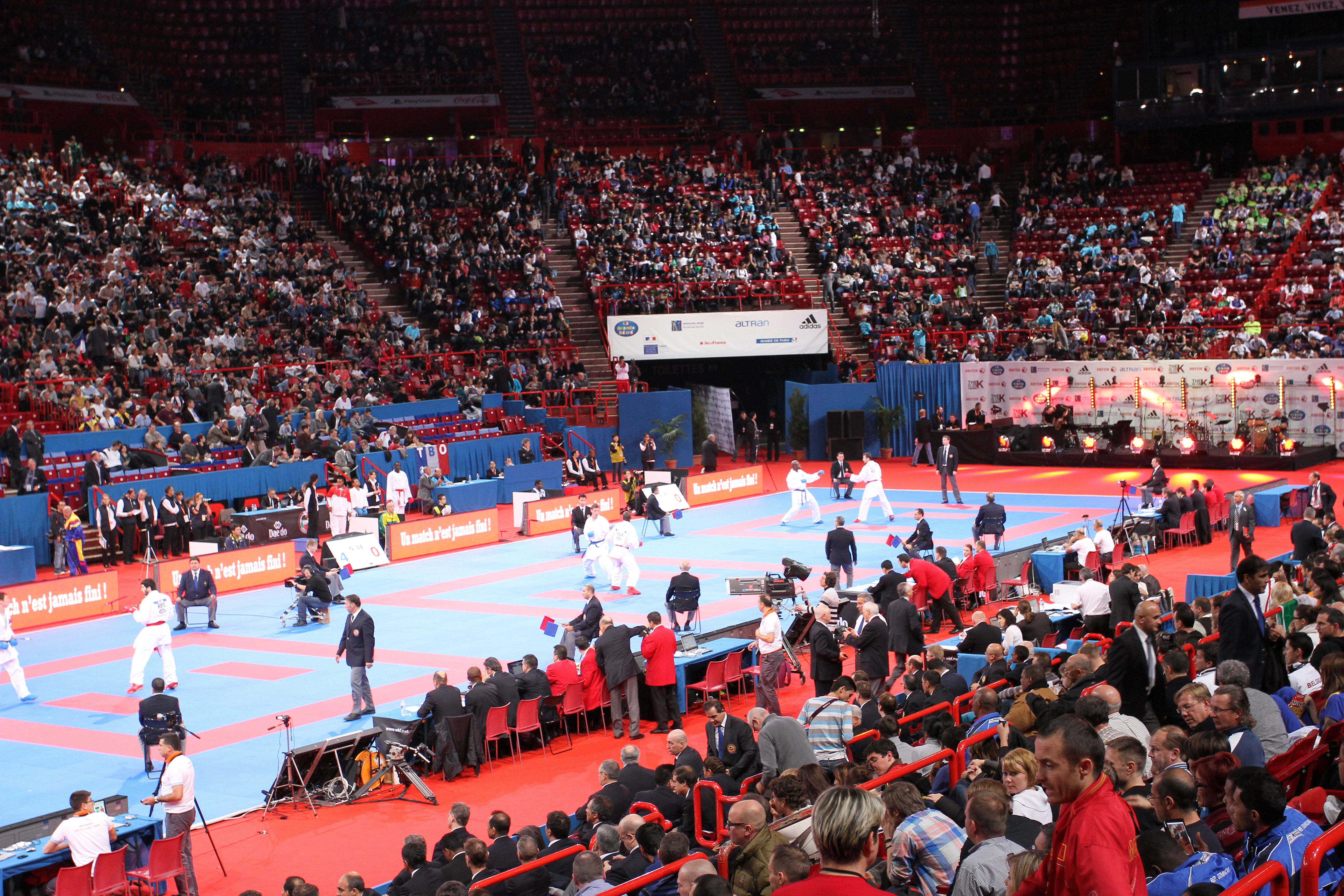 WKF-Karate world championships 2012 in Paris (Palais Omnisport Paris-Bercy)